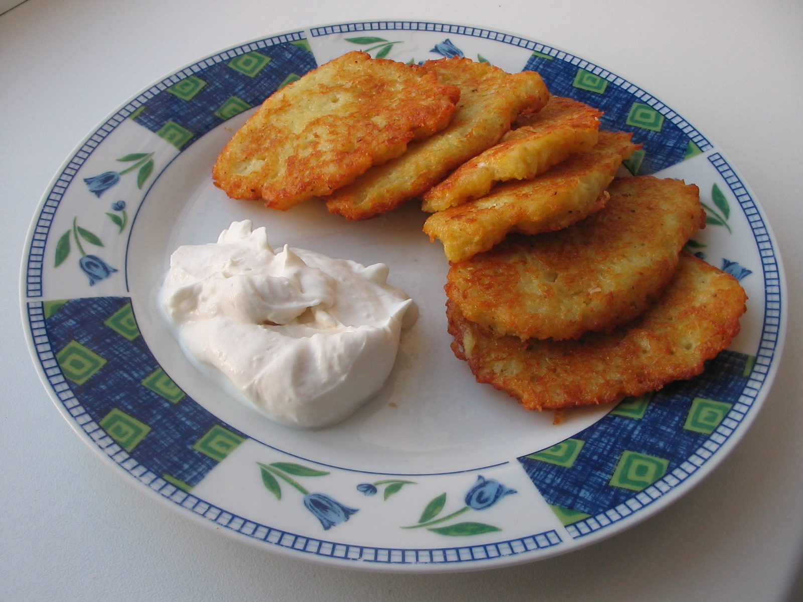 Latkes with smetana.